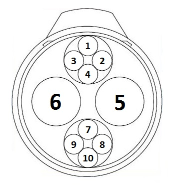 CHAdeMO socket